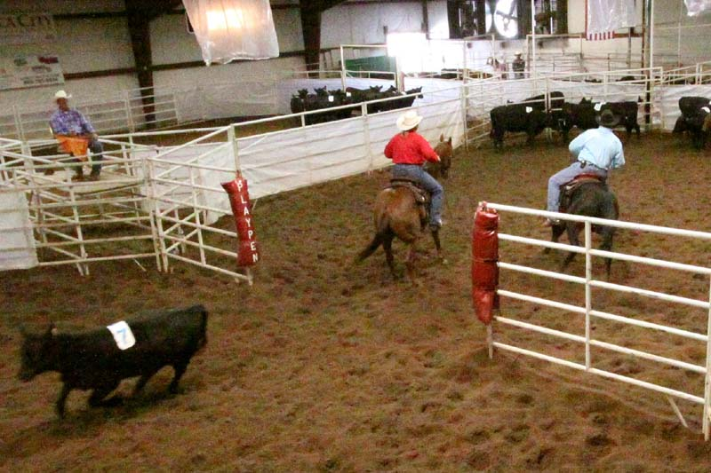 Two horsemen practice the western equestrian sport of Ranch Sorting at the Play Pen Arena in Ponca City, Oklahoma on October 11, 2008. Use of this photo must include an attribution to Hugh Pickens and a link to Hugh Pickens.